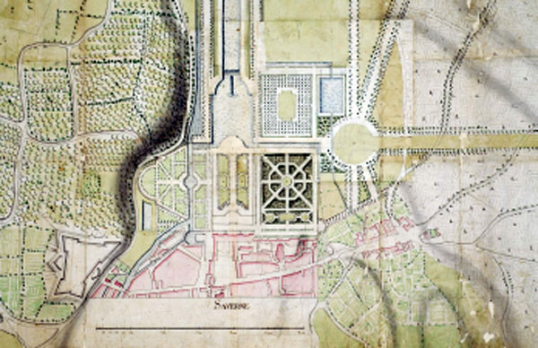 Detail of the castle park of Saverne.